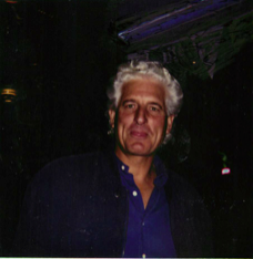 Director & Screenwriter Stewart Raffill